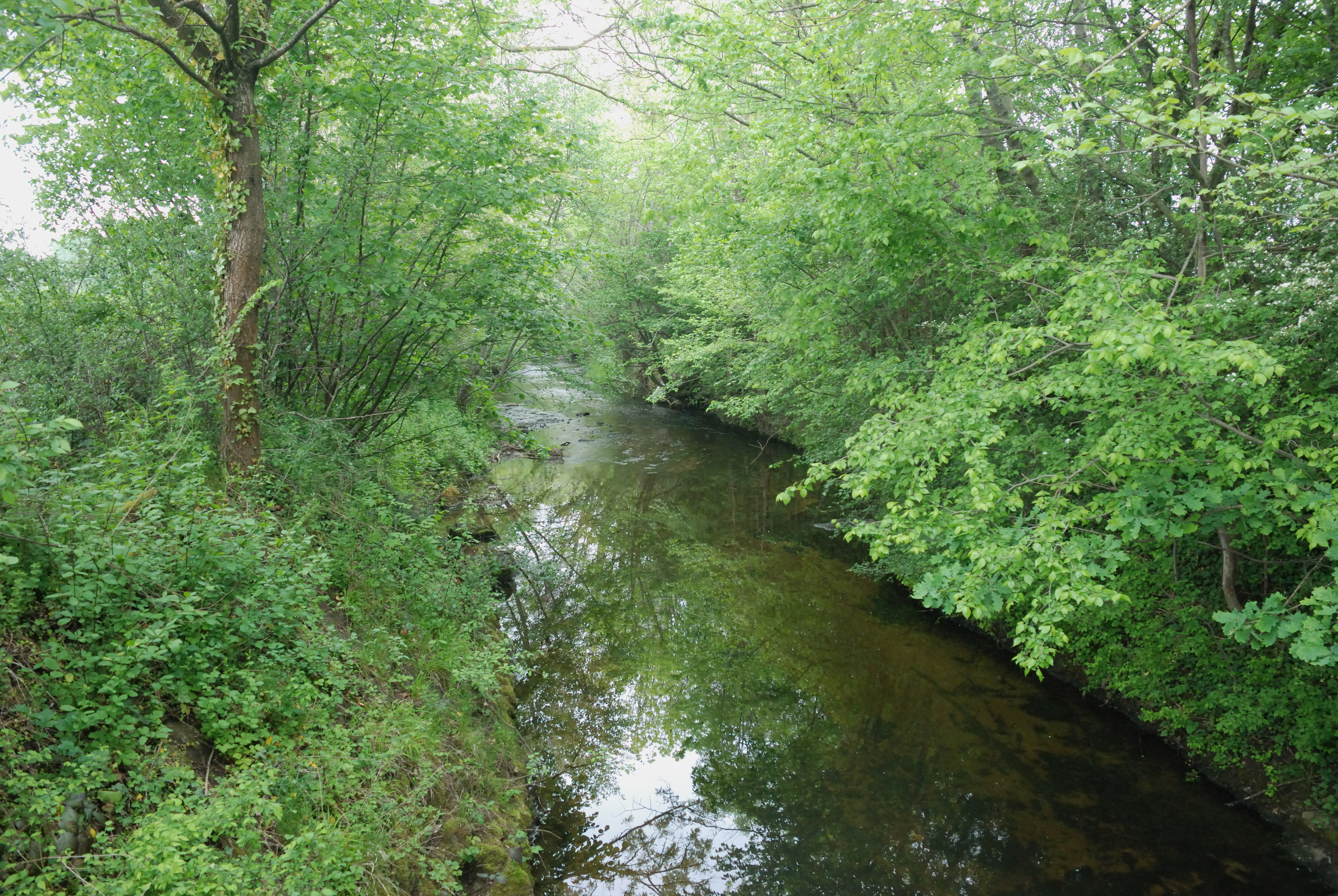 The Litroux river (Culhat, Puy-de-Dôme, France).